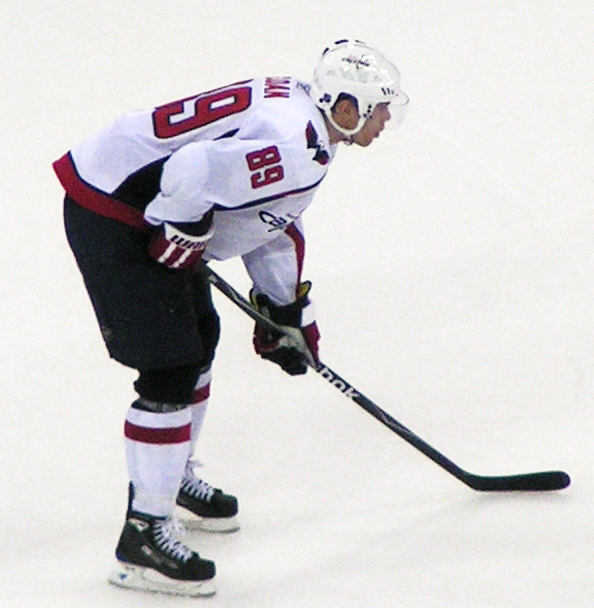 Tyler Sloan plays with Capitals ant New Jersey